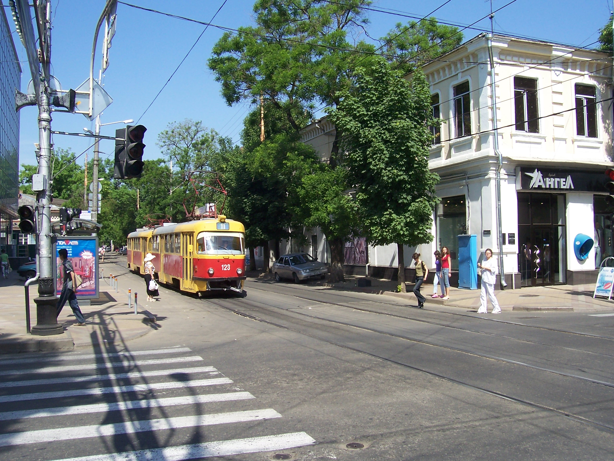 A tram in Krasnodar, Russia